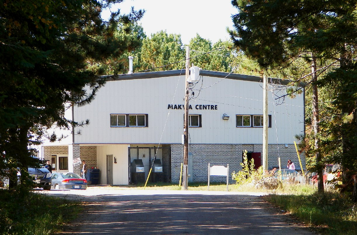 Community centre of Pikwàkanagàn First Nation, Renfrew County, Ontario, Canada